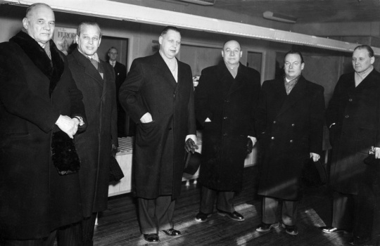 The Tuomioja government of Finland at the Seutula airport. From the right Päiviö Hetemäki, Teuvo Aura, Kustaa Junttila, prime minister Sakari Tuomioja, Tuure Junnila and K.T. Jutila.